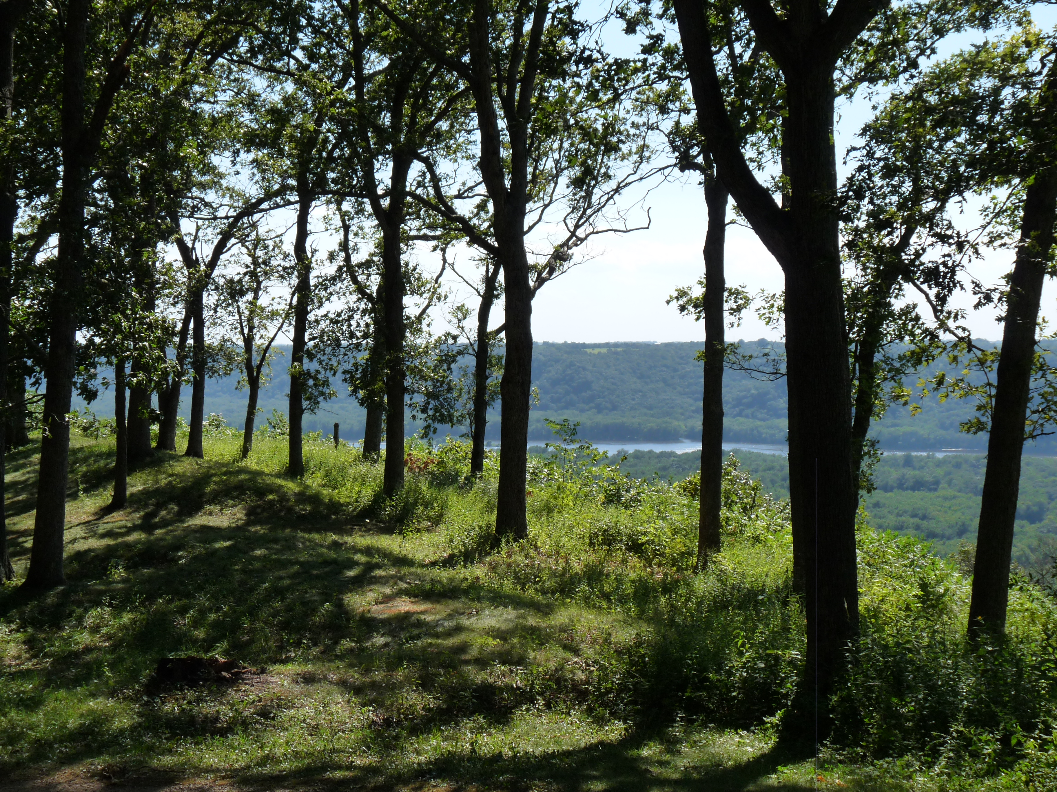 Sentinel Ridge is a bluff on the Wisconsin side of the junction of the Wisconsin River and the Mississippi. Pictured is a bear effigy mound in the lower left, with a linear mound behind it, with a procession of linear mounds not visible behind that. The water in mid-photo is the Mississippi, with Iowa on the other side. Sentinel Ridge is in Wyalusing State Park. A collection of mounds scattered around the area are listed on the National Register of Historic Places as the Wyalusing State Park Mounds Archeaological District.